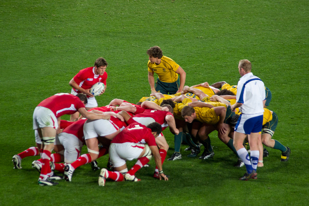 Match between Wales and Australia (Bronze Final) during 2011 Rugby World Cup in New Zealand.